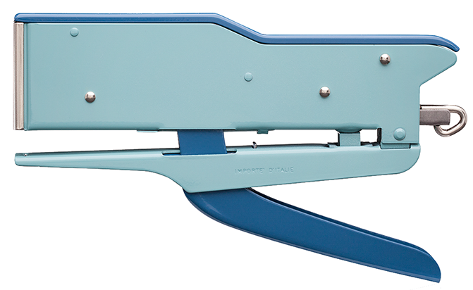 An example of Zenith 548